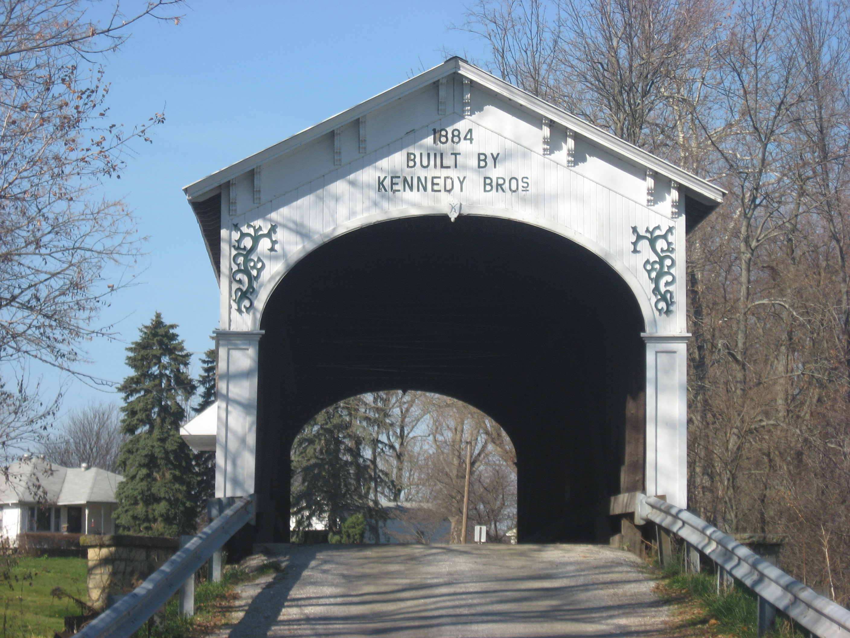 Northwestern portal of the Offutt Covered Bridge, which carries County Road 550W (Offutts Bridge Road) over the Little Blue River northwest of Rushville in Posey Township, Rush County, Indiana, United States. Built in 1884, it is listed on the National Register of Historic Places.